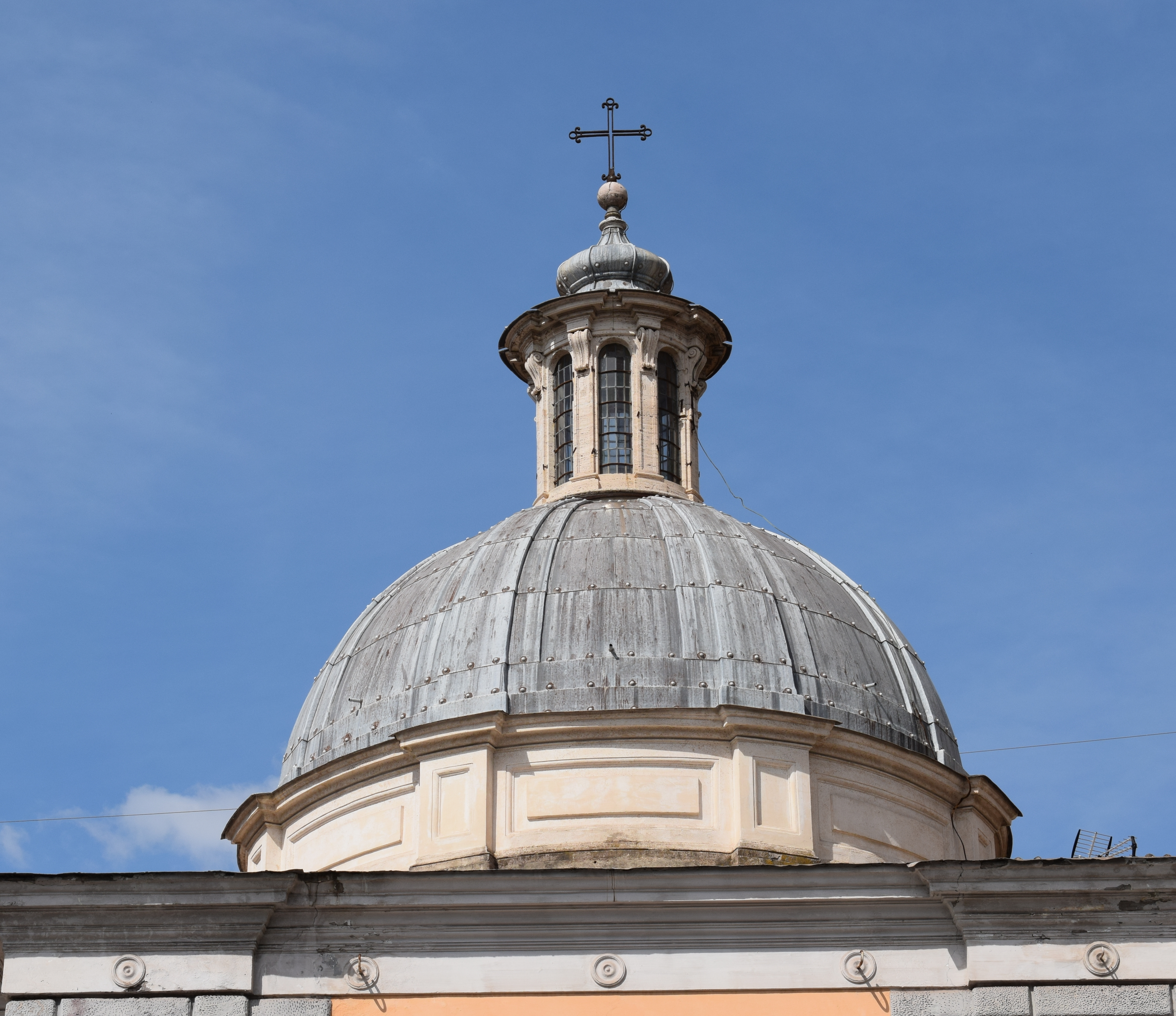 External view of the dome of the Cybo Chapel in Santa Maria del Popolo, Rome with its Baroque stone lantern.